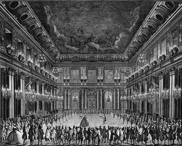 A copperplate engraving depicting the first dance of King Christian VII and Queen Caroline Mathilde of Denmark at their wedding on 8 November 1766 at Christiansborg Palace. Further information about the wedding here.